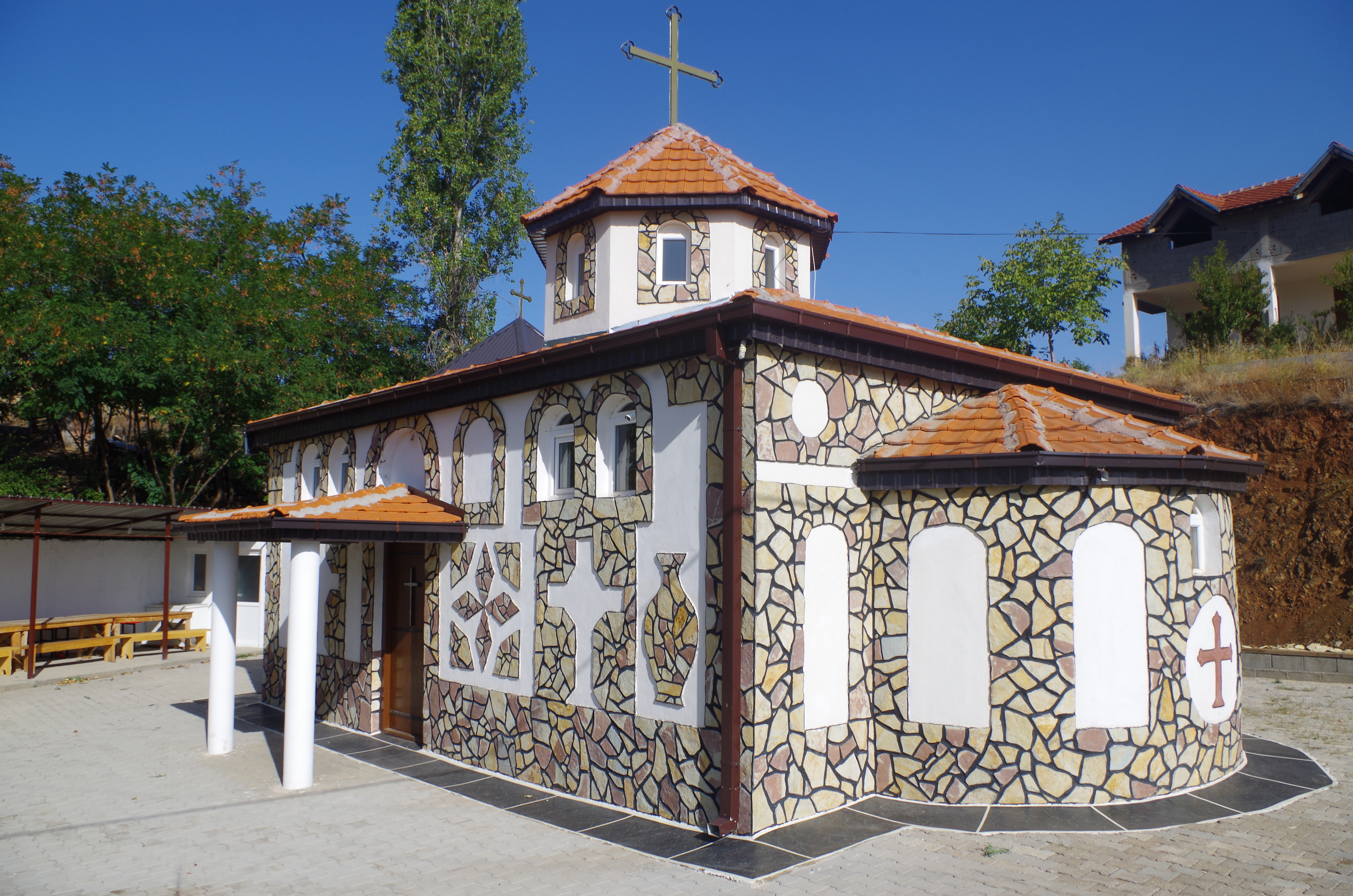 St. Nedela Church in the settlement of Brušani